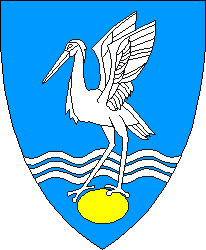 Old coat of arms of Kuressaare Parish (1995–1999).